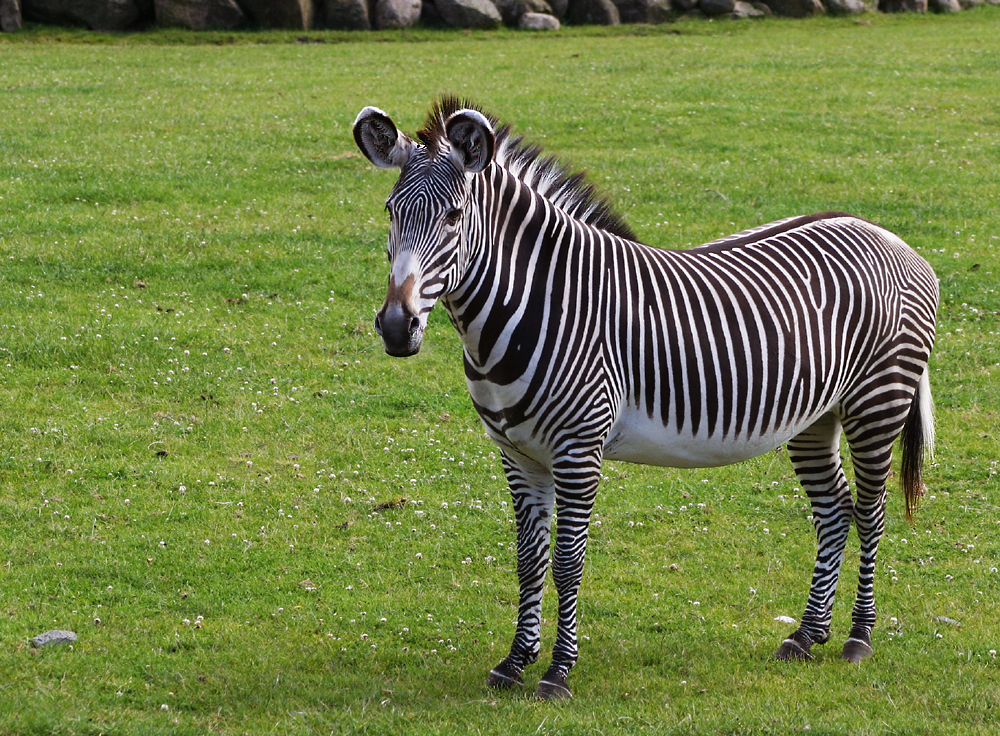 Grevy's Zebra from Aalborg Zoo, Denmark.